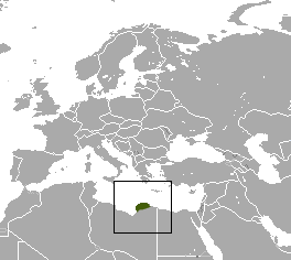 Cyrenaica Shrew (Crocidura aleksandrisi) range